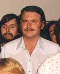 John Swartzwelder in 1992. Cropped from Image:Simpsons writers2.jpg